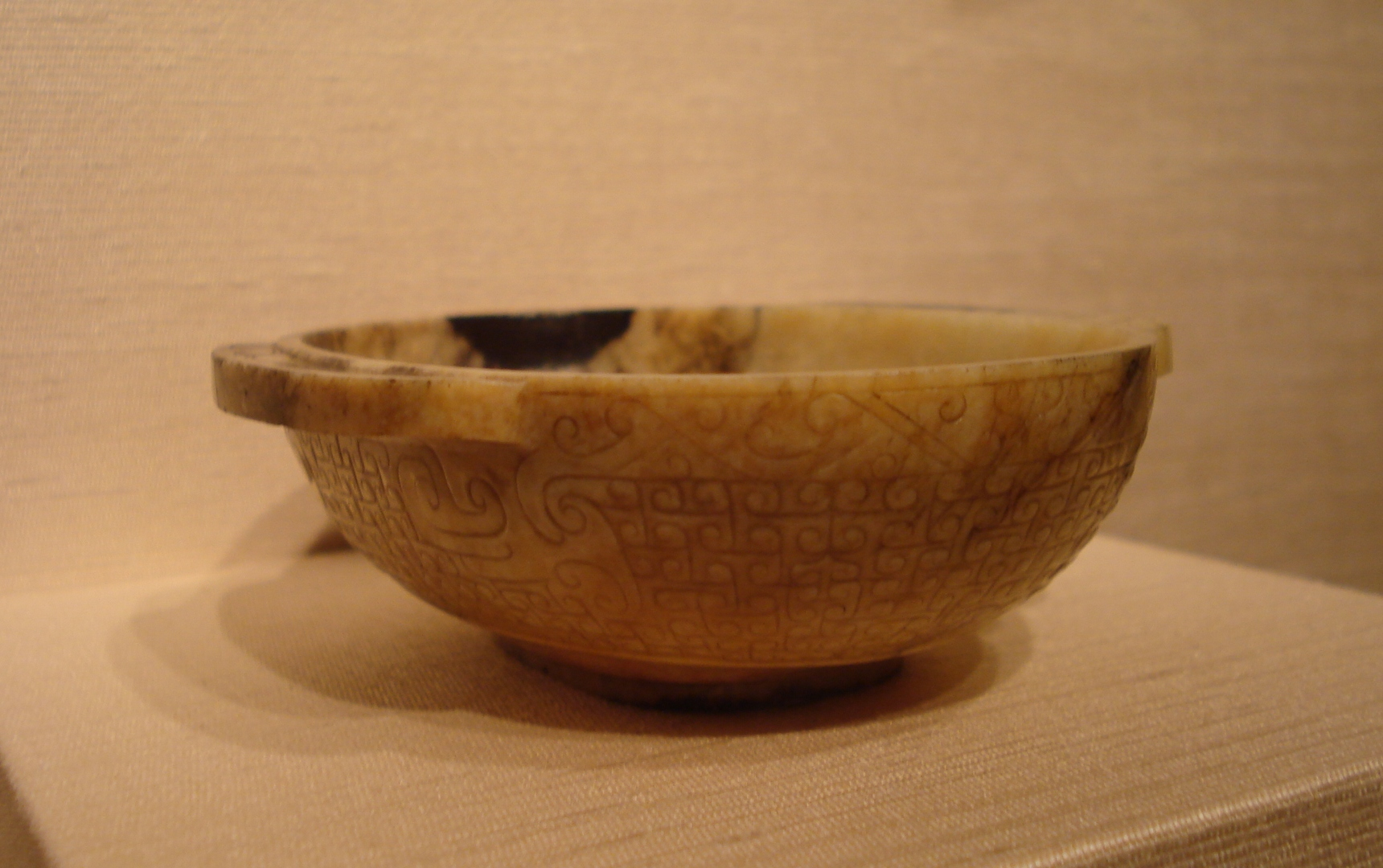 A Chinese jade wine cup from the Western Han Dynasty, dated 2nd century BC.